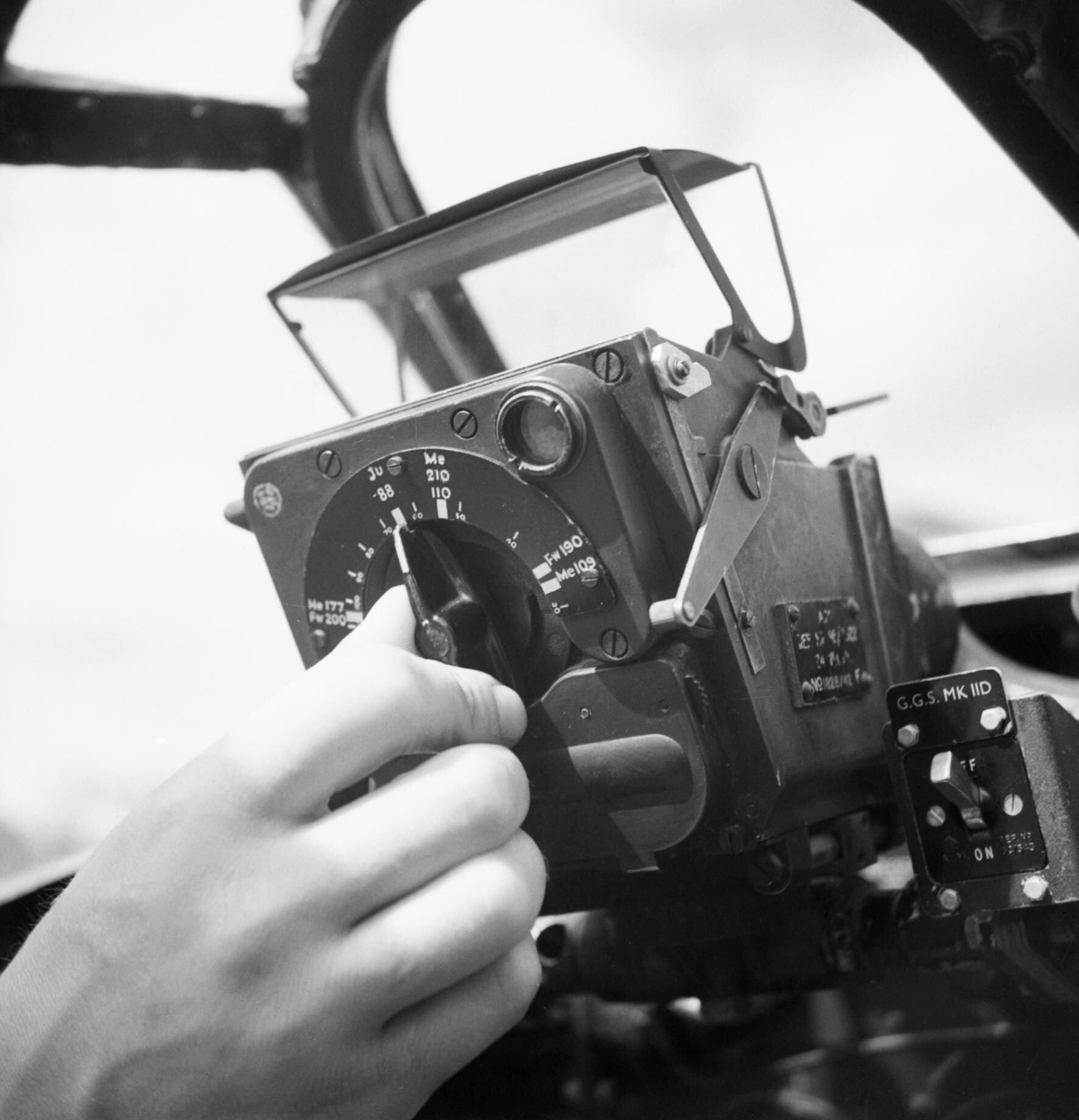 Ferranti Mark IID gyroscopic gunsight mounted in a Supermarine Spitfire Mk IX of No. 127 Wing RAF at B2/Bazenville, Normandy, 17 August 1944. Ferranti Mark IID gyroscopic gunsight mounted in a Supermarine Spitfire Mark IX of No. 127 Wing RAF at B2/Bazenville, Normandy.